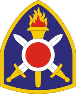 402nd Field Artillery Brigade Shoulder Sleeve Insignia from